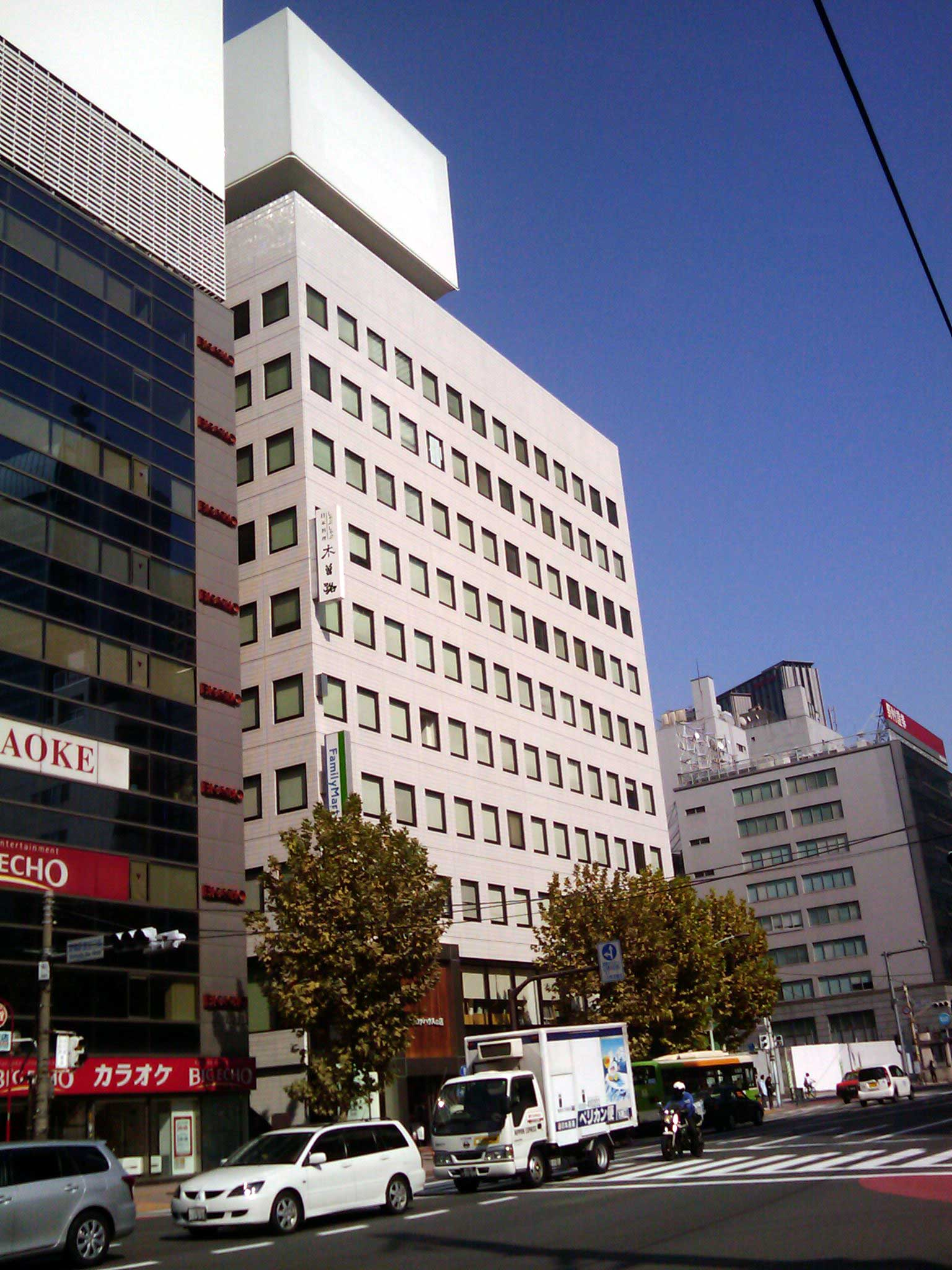 shinbashi centaerplayce